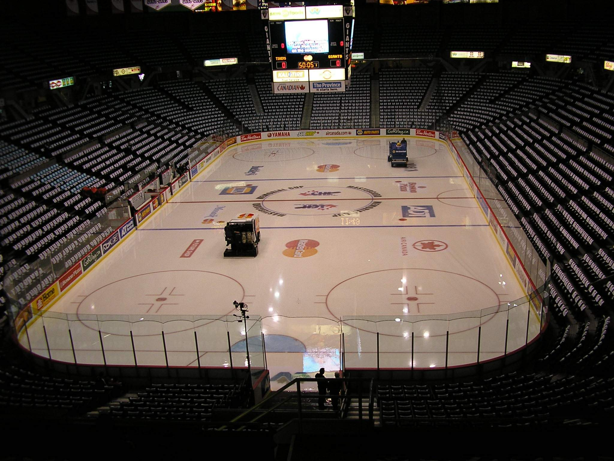 Towels laid out on each seat at the Pacific Coliseum in Vancouver, British Columbia prior to the 2007 Memorial Cup championship game. May 27, 2007